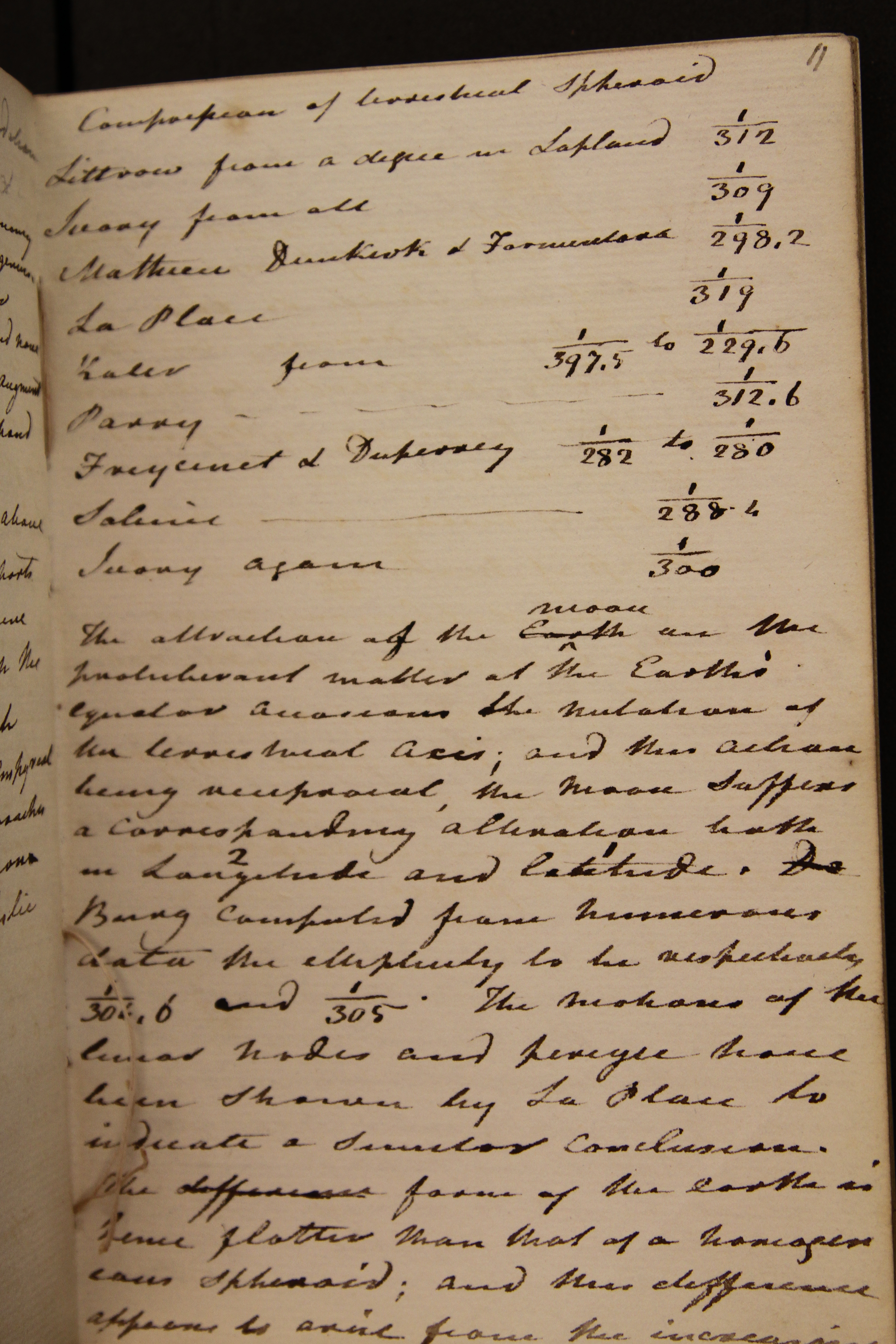 Page from a notebook kept by the scientist Mary Somerville. Table at the top of the page summarises estimates of the Earth's ellipticity. From a collection of documents shelfmarked Dep. c. 352.